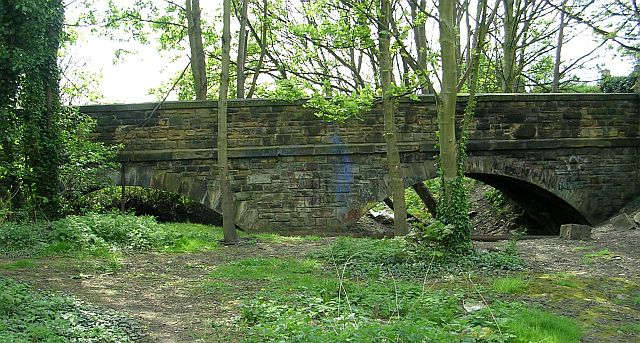 Former Railway Line - off Lowtown. Now disused this line ran from Leeds Central to Bradford Exchange via Pudsey Lowtown and Greenside.